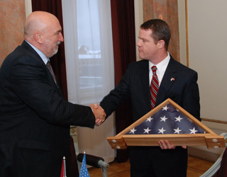 Ivars Godmanis, Prime Minister of Latvia, greets Charles W. Larson, Jr., United States Ambassador to Latvia.